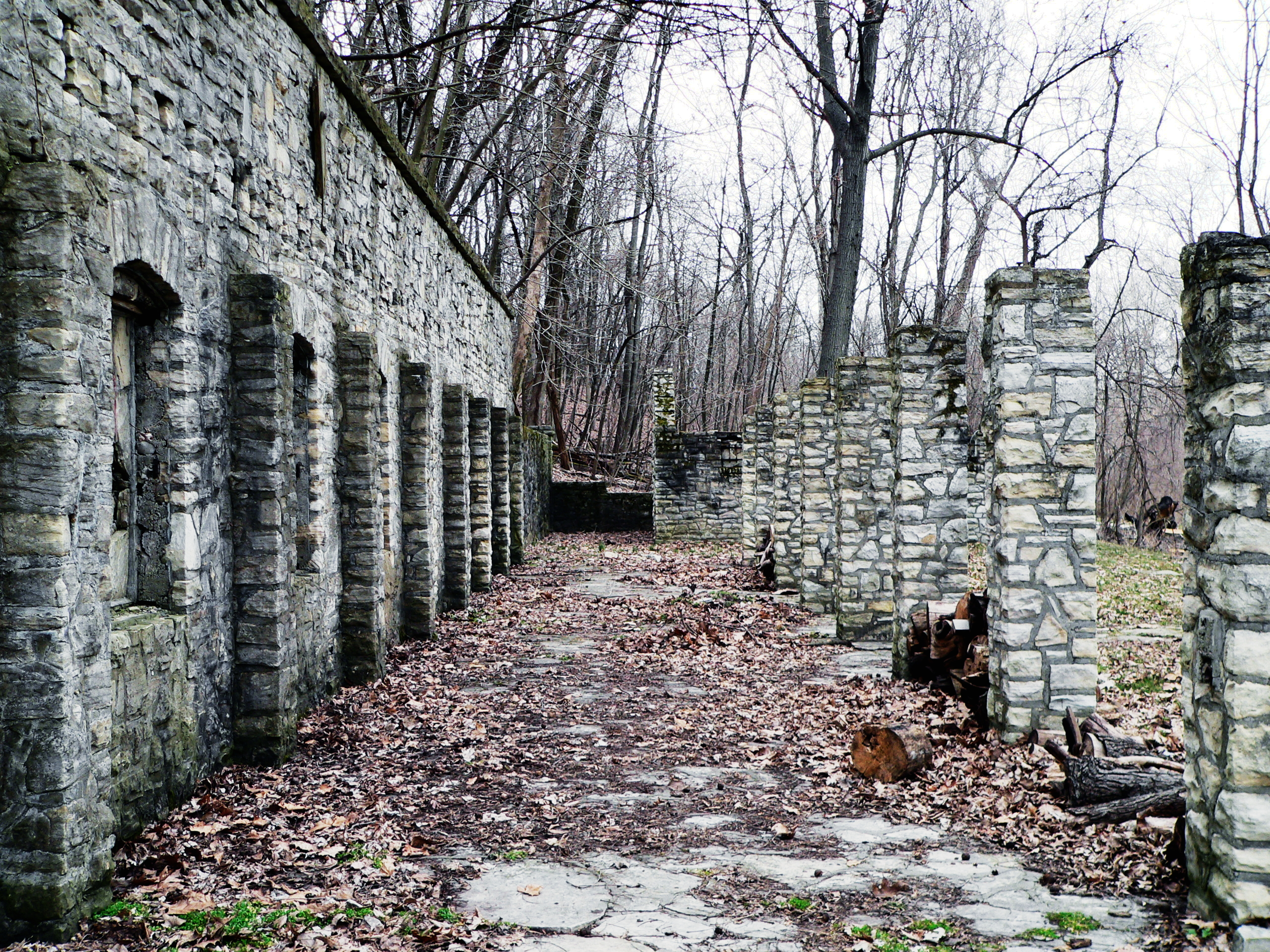 Abandoned resort/vacation area in the far north of St. Louis' Spanish Lake neighborhood, near the river.